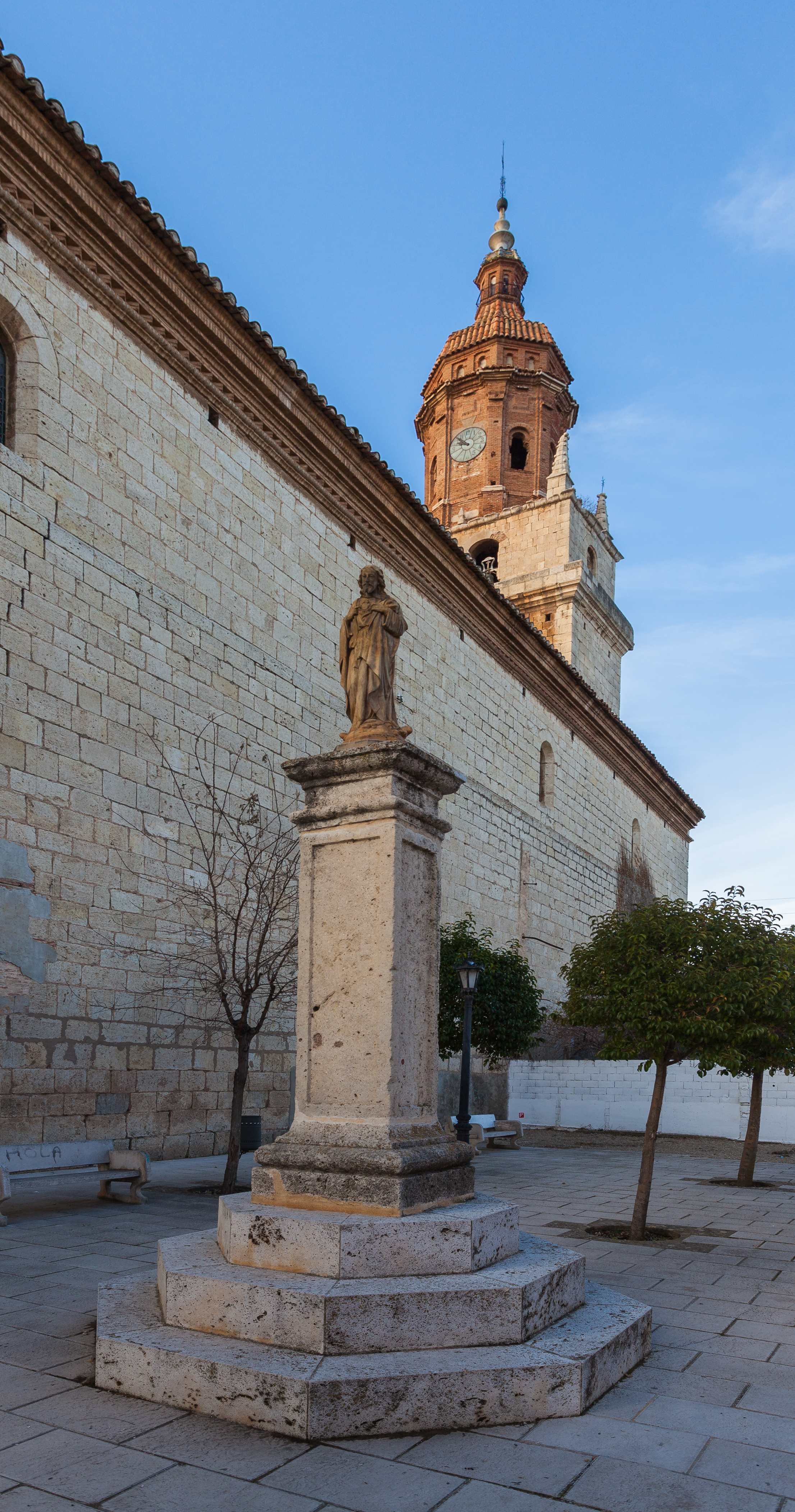 St Mary church, Calamocha, Teruel, Spain